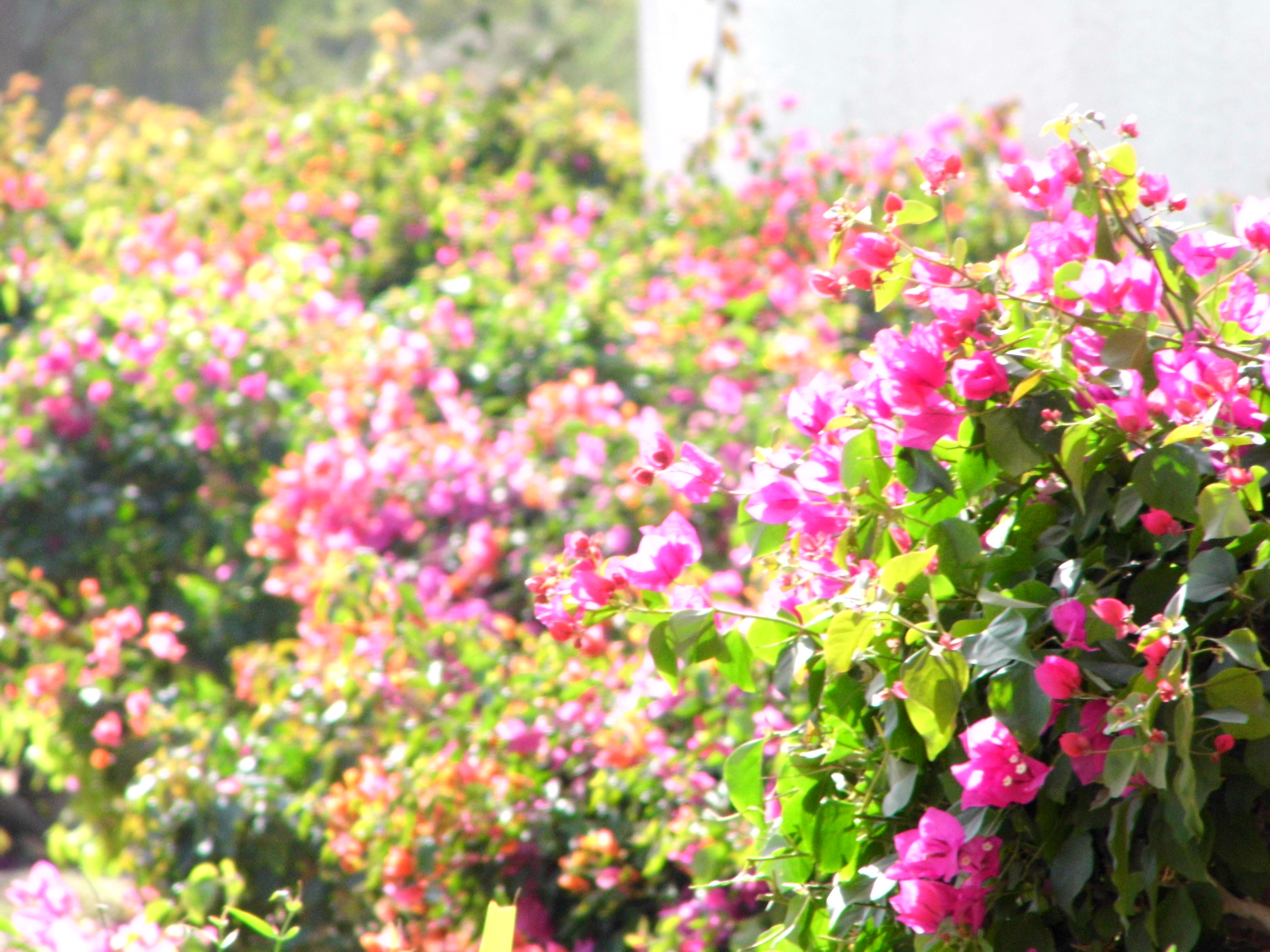 The beautiful greenery of Mushrif Park, Dubai